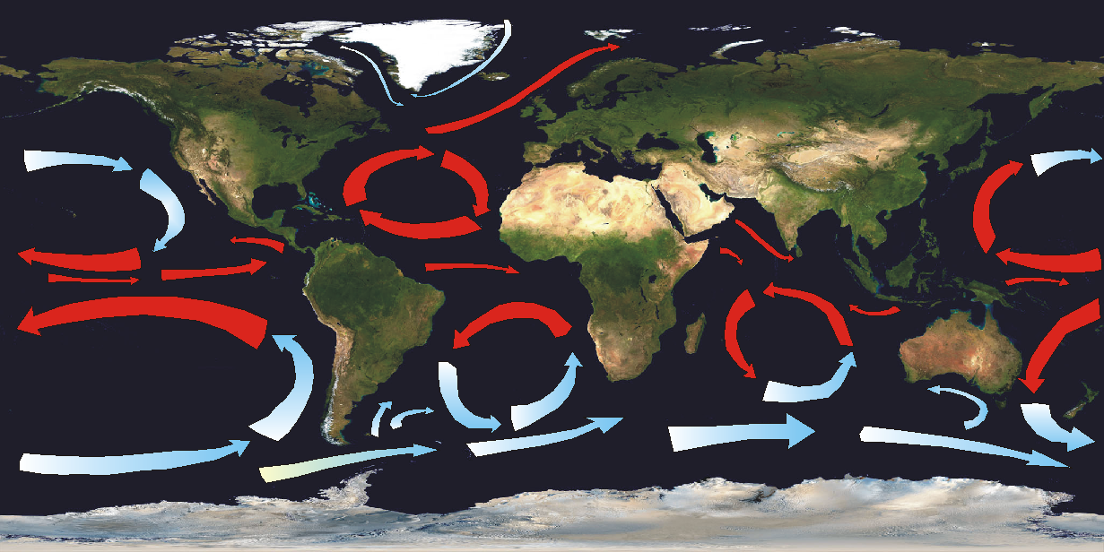 A map showing the different surface currents in the oceans and the gyres created from it. Currents are imposed upon a satellite photo.